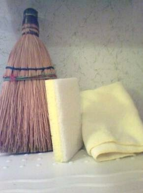 This is a picture of a stiff whisk broom, a gentle scrubber sponge and a micro-fiber cleaning cloth to symbolize stages of cleaning.